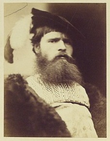 Portrait of William Frederick Yeames, ca 1860